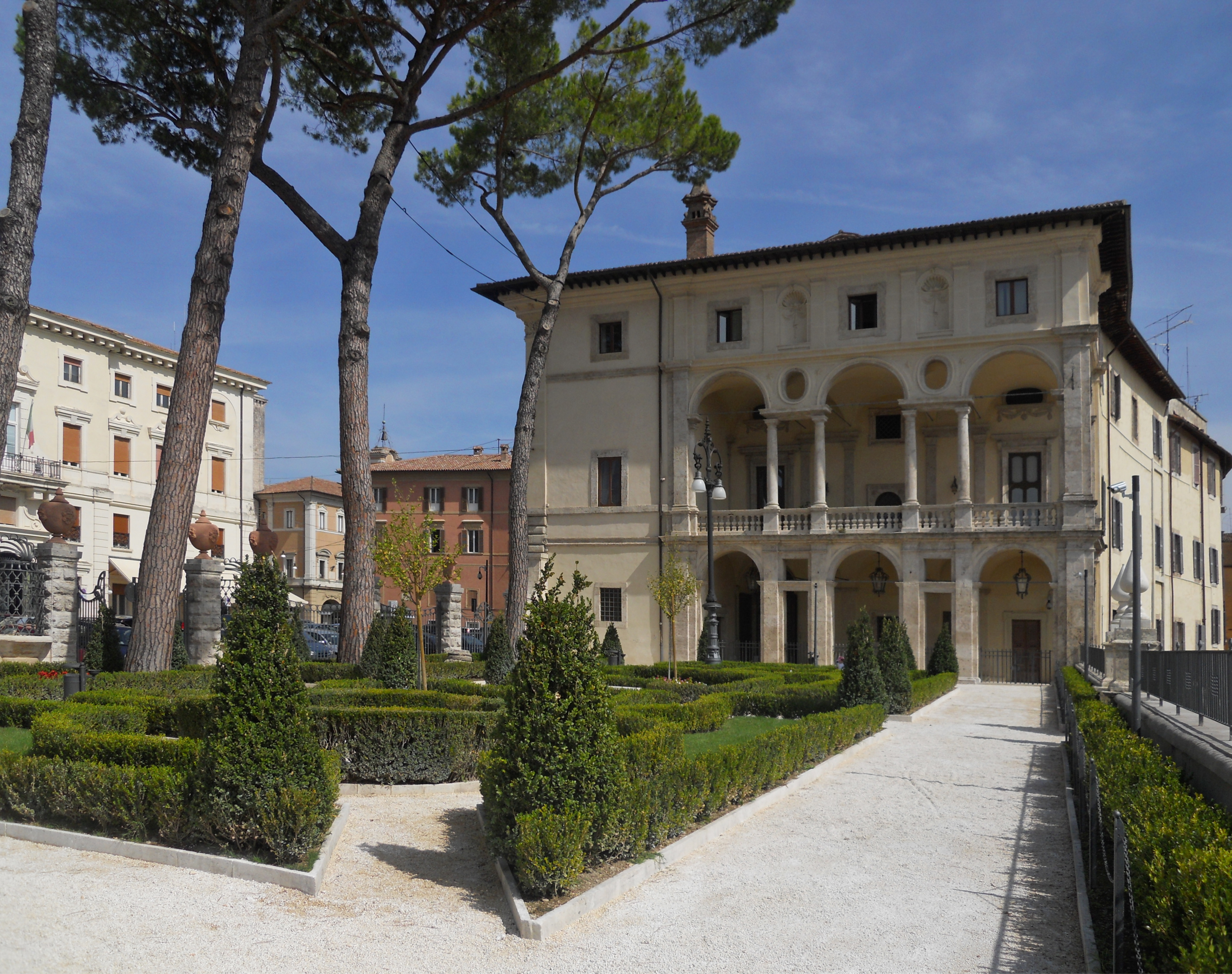 Vincentini palace gardens, with the so called Vignola's loggia - Rieti, Italy